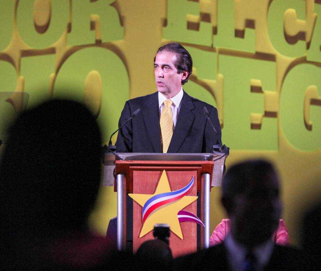 Gustavo Montalvo Franco